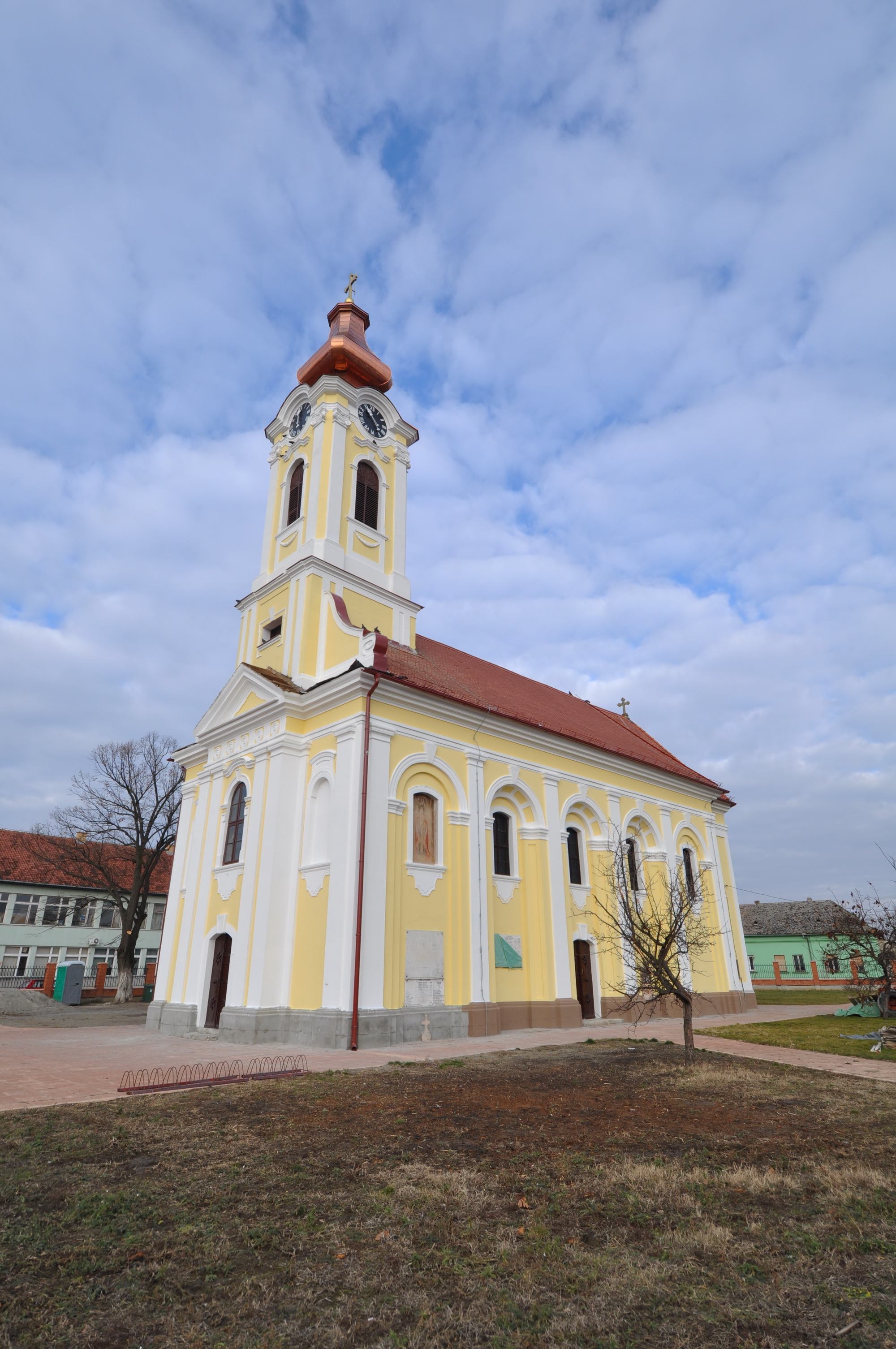 Serbian Orthodox church of Saint Nicholas in Novi Bečej - southwest